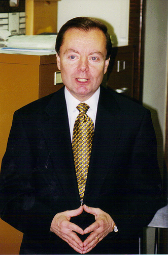 Photo by Craig Michaud.This is Gary in New Hampshire while running for Presidency of the US